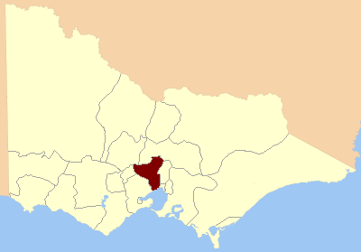 Electoral district of Ovens, Victorian Legislative Assembly. 1856